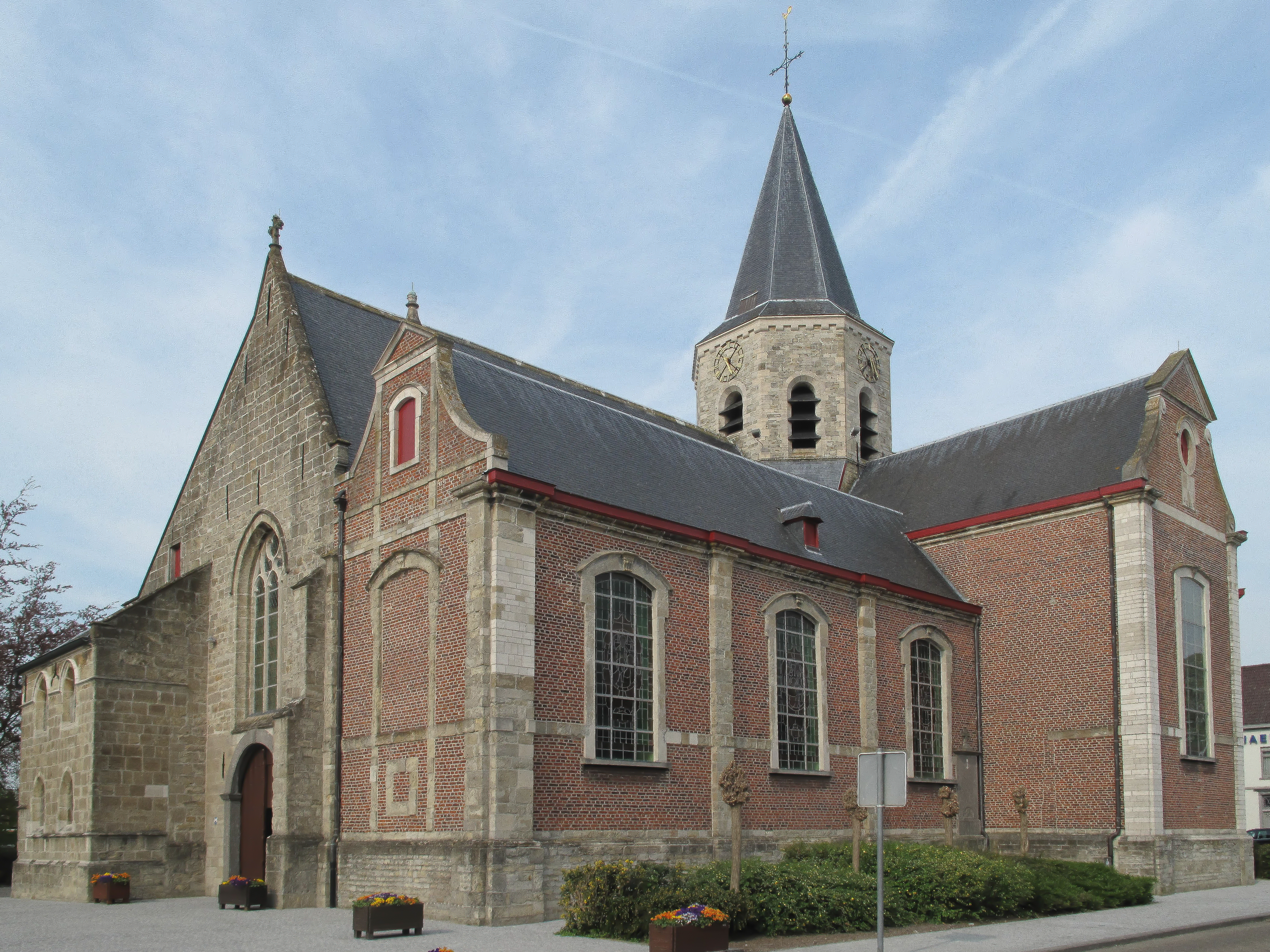 Kalken, church: de parochiekerk Sint Denijs